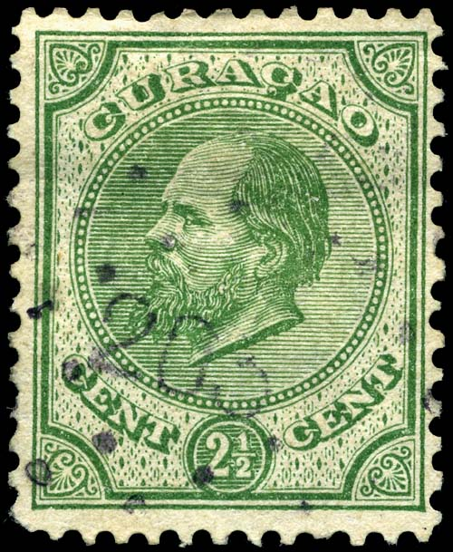 Netherlands Antilles 2 1/2c stamp of 1873.